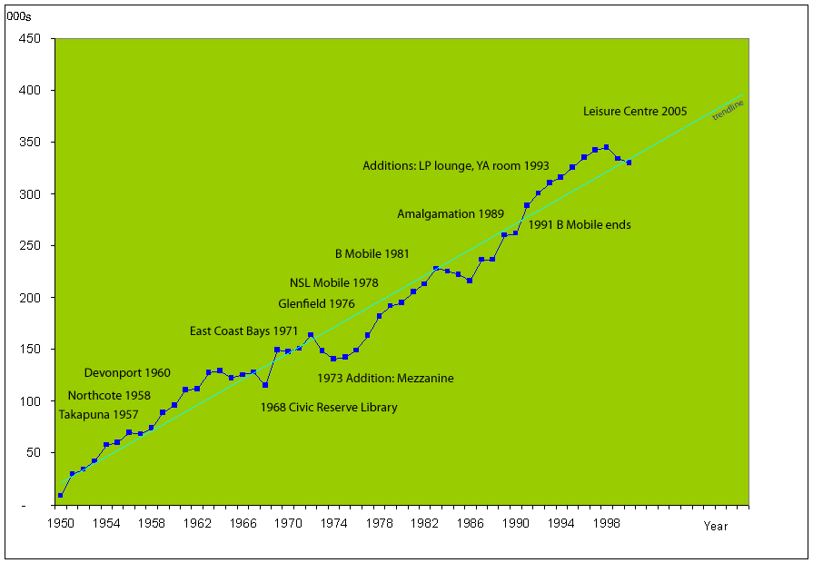 Annual issues at Birkenhead Public Library 1950-2000. Note: other branches dated by first year statistics recorded (ie not their opening dates). Trendline is just automatic line of best fit.